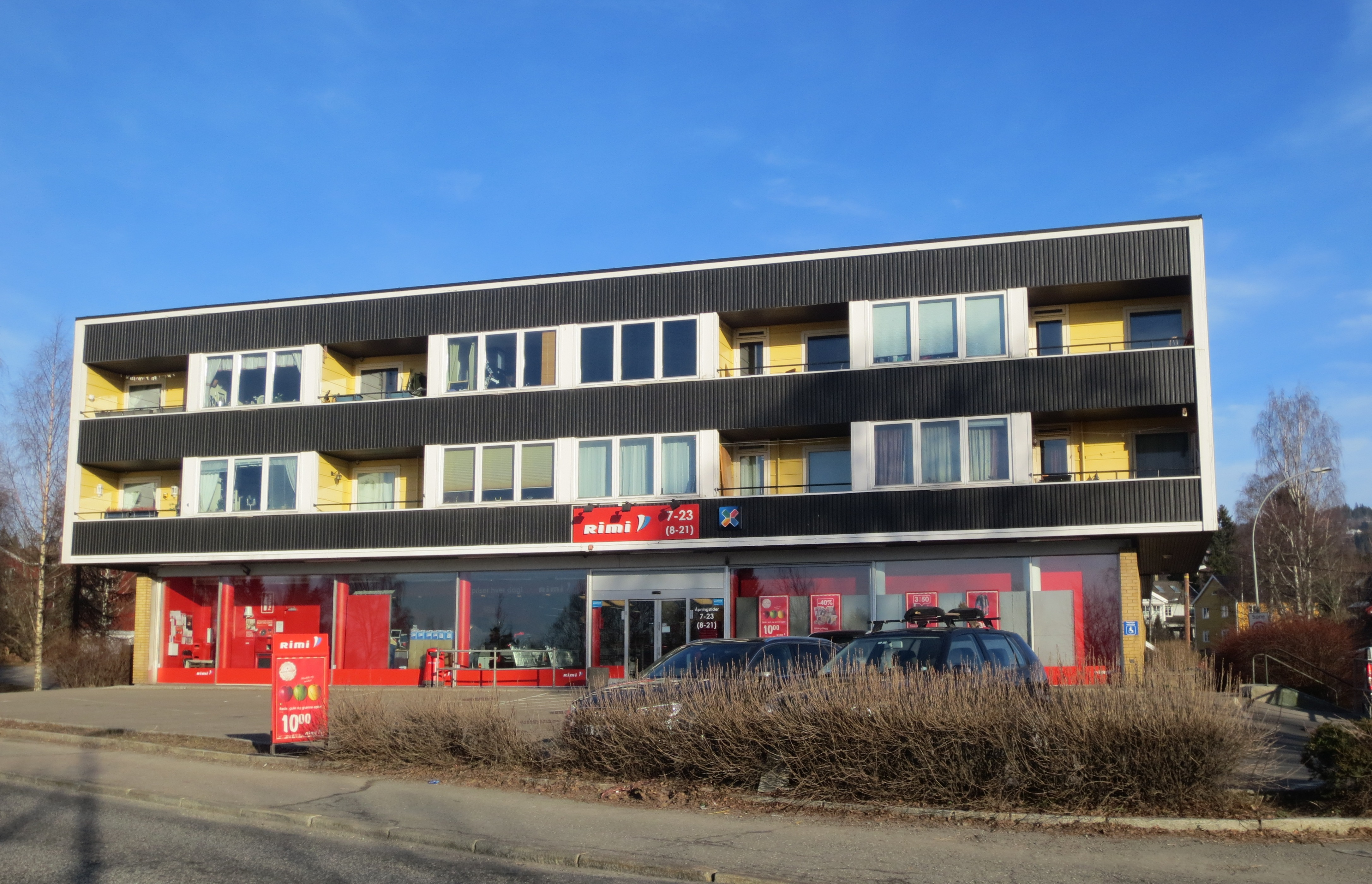 Functionalist condo and business building in Smestad, Vestre Aker ward, Oslo.